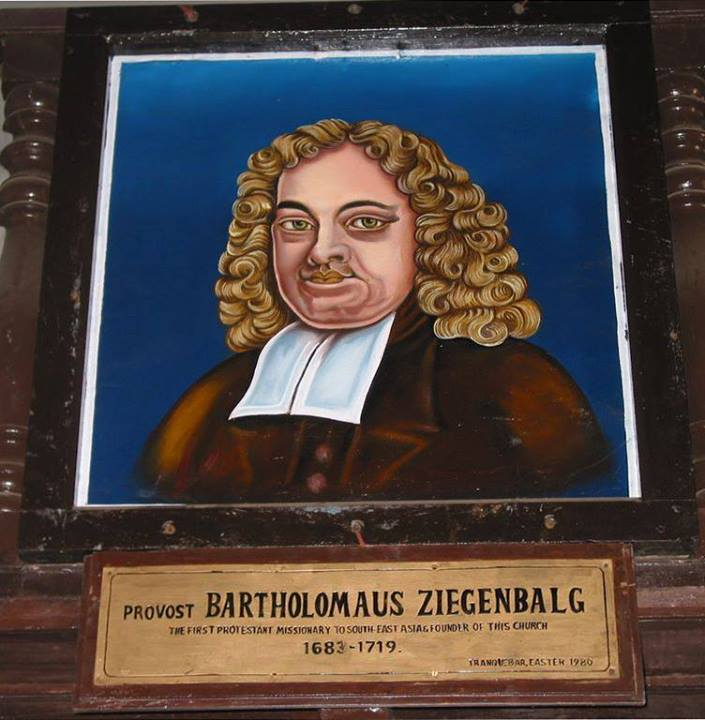 1706-The Lutheran Missionary work began on July 9, 1706 by the first protestant German Missionaries Provost Barthollomaus Ziegenbalg and Provost Henrich Plutschau deputed by the Royal Danish King, the Fredrick IV, landed in the Danish colony Tranquebar, a coastal village in Tamilnadu. South India.